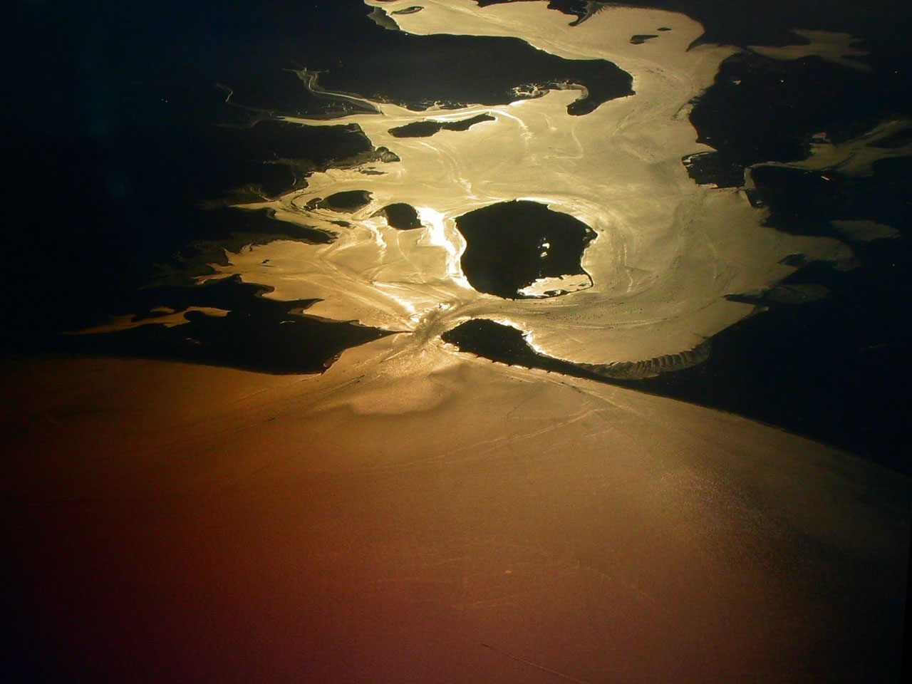 Poole Habour in Dorset, England, as seen at sunset from a plane. Looking west-northwest into the harbour. The three islands visible just inside the entrance are (from left to right): Green Island, Furzey Island, and Brownsea Island.